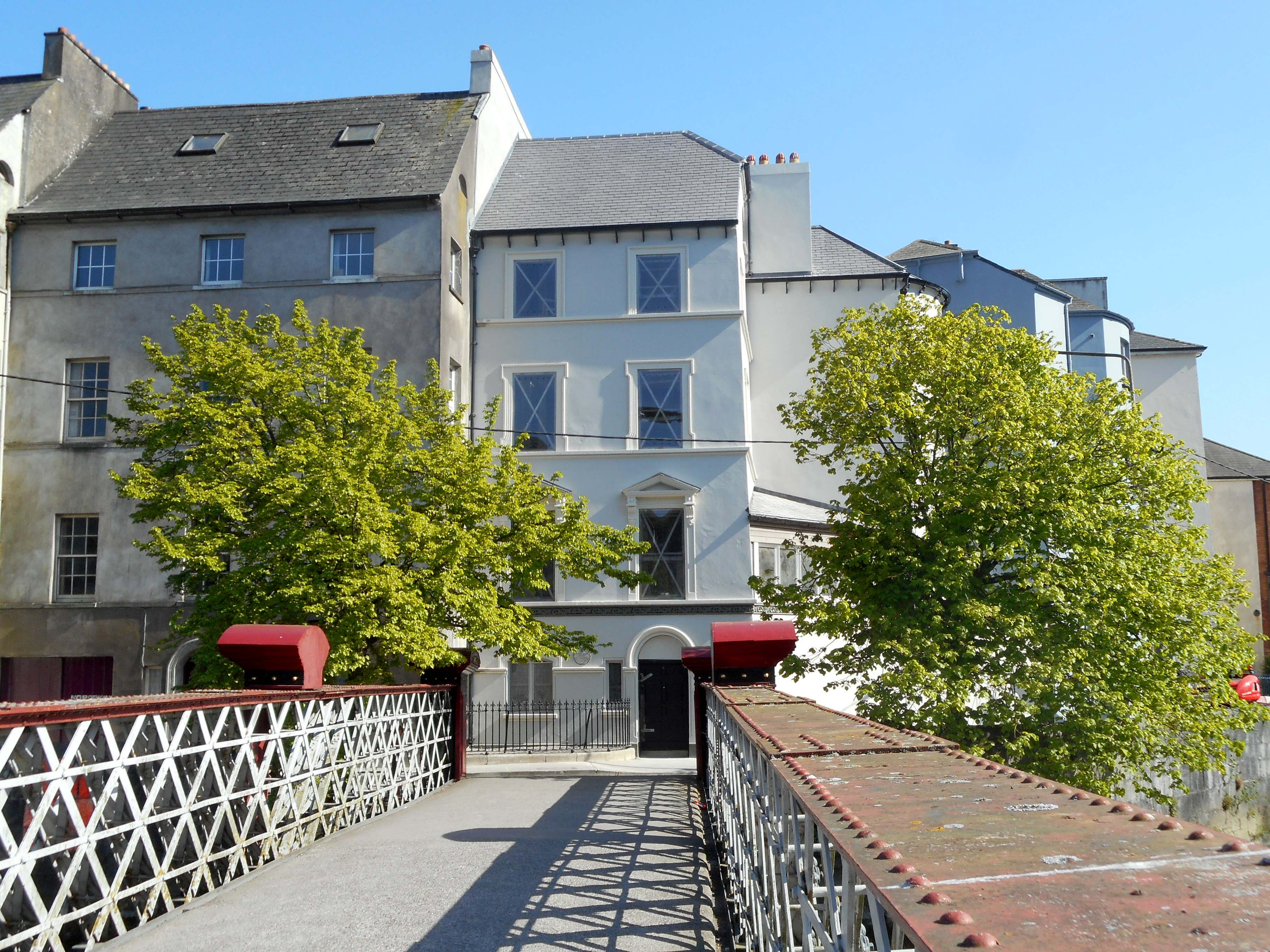 George Boole's house at 5, Grenville Place in 2017 following restoration work by UCC.